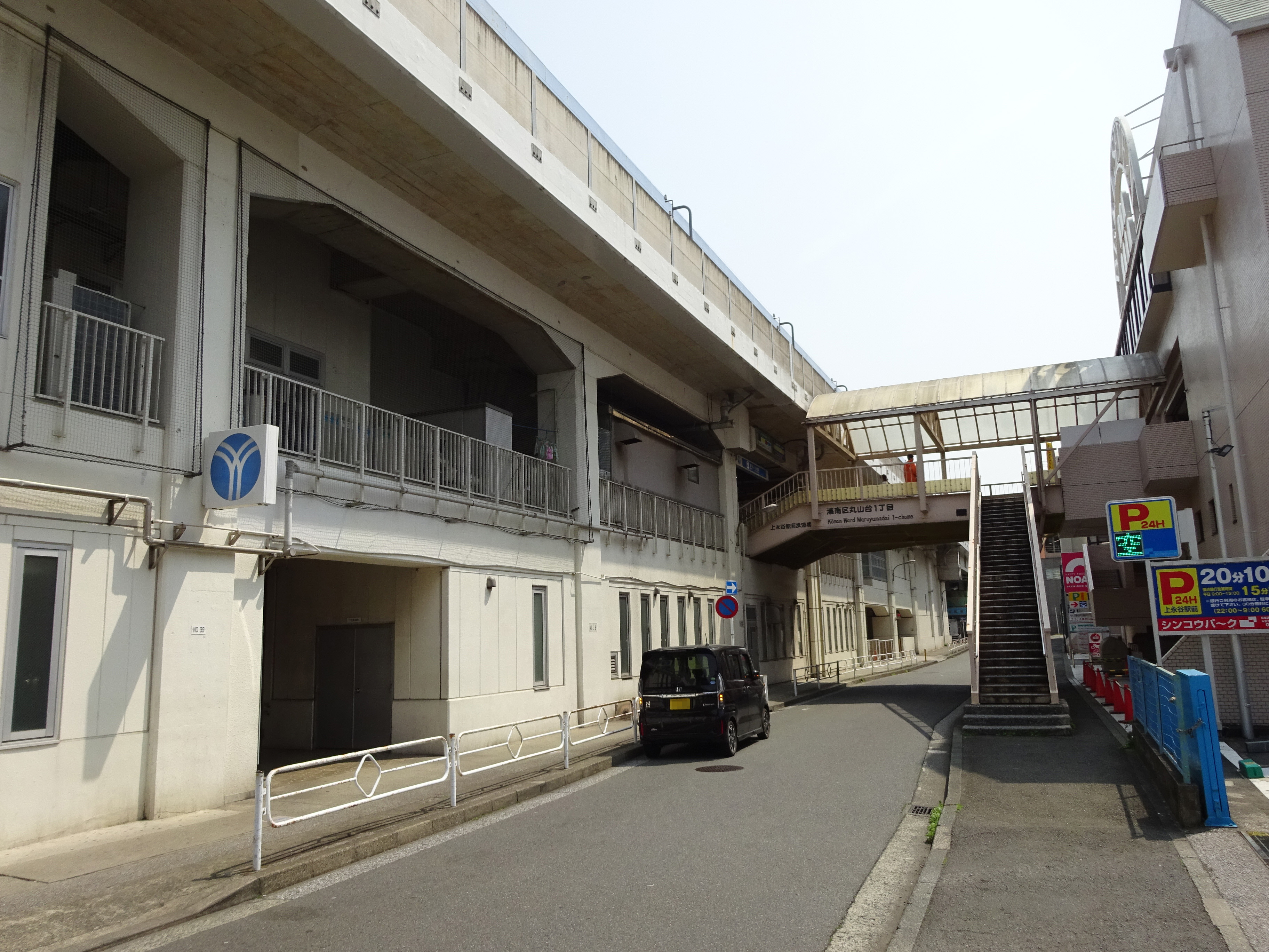 Kaminagaya Station Exit No.1 and No. 4